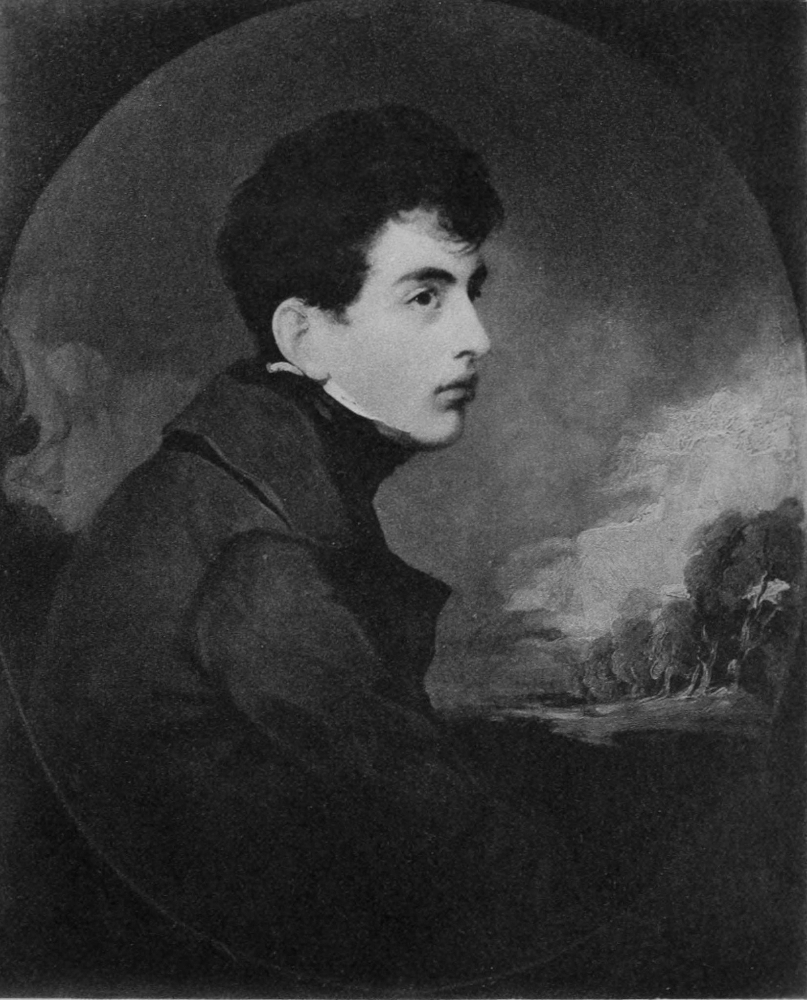 Young Lord Byron